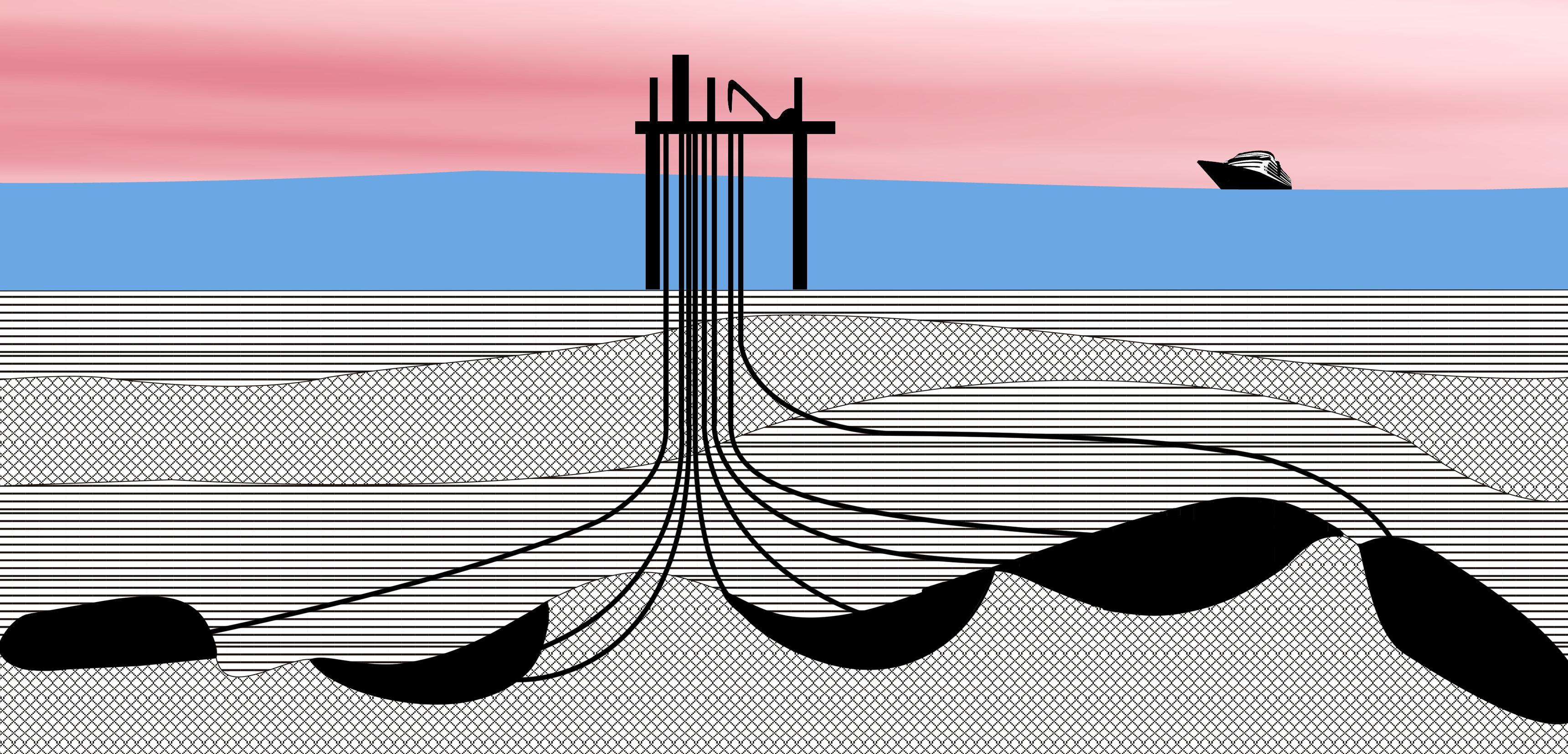 Multi - directional well. Diagram